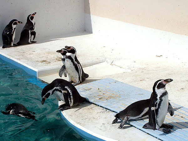 Okhotsk Aquarium , Humboldt Penguin